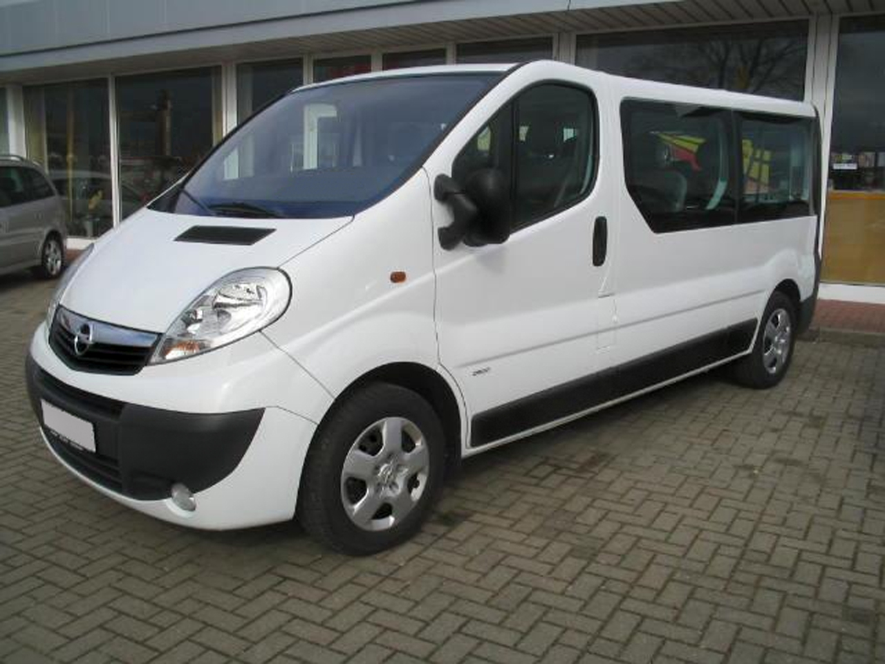 Passenger version of the Opel Vivaro